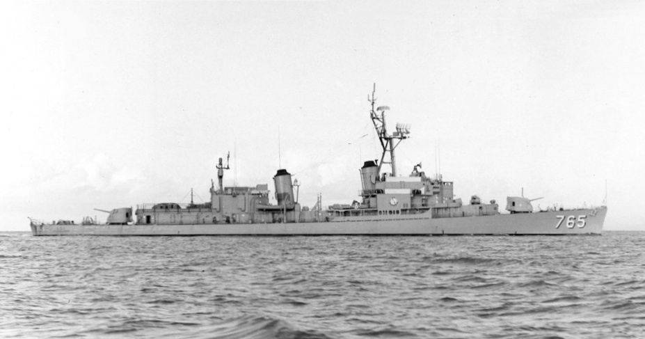 The U.S. Navy destroyer USS Keppler (DD-765) entering Roosevelt Roads, Puerto Rico, on 24 June 1965.